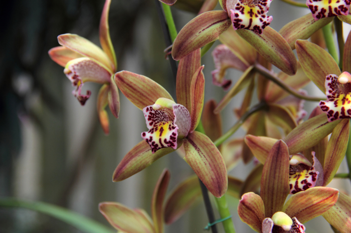 I am from China, but some of my families lives in Nepal or North India. My height is about 25~80 cm and my flower's diameter is about 6 cm. For people make us marrage with other orchids, so some of my families get the characteristic of others. We may have some different features but we are sure the same species. Through this way, we may have much more beautiful flowers, and you may have a chance to enjoy them during Mar to May. May you be happy for meeting me.